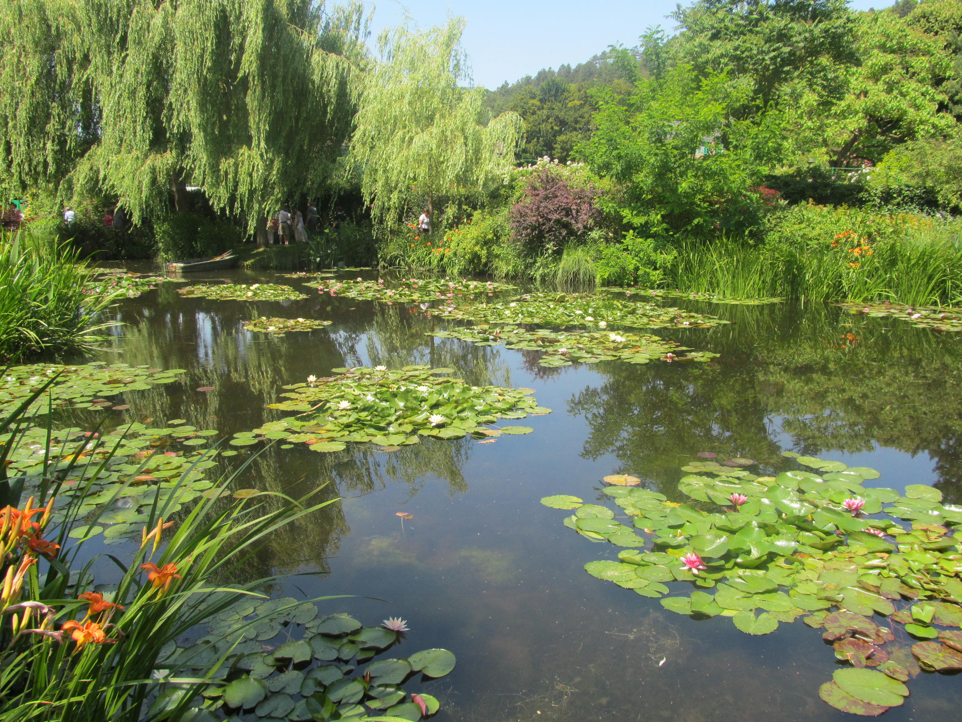 Giverny - Monet´s Garden